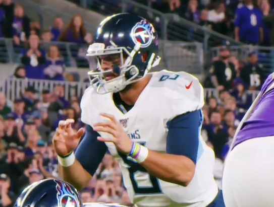 Marcus Mariota in 2020. Image from video Derrick Henry's Jump Pass TD | Touchdown Tuesday, ~ 00:00.